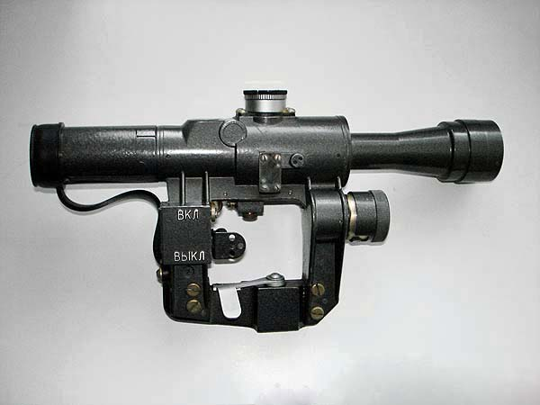 Russian PSO-1M2 military issue 4x24 telescopic sight.